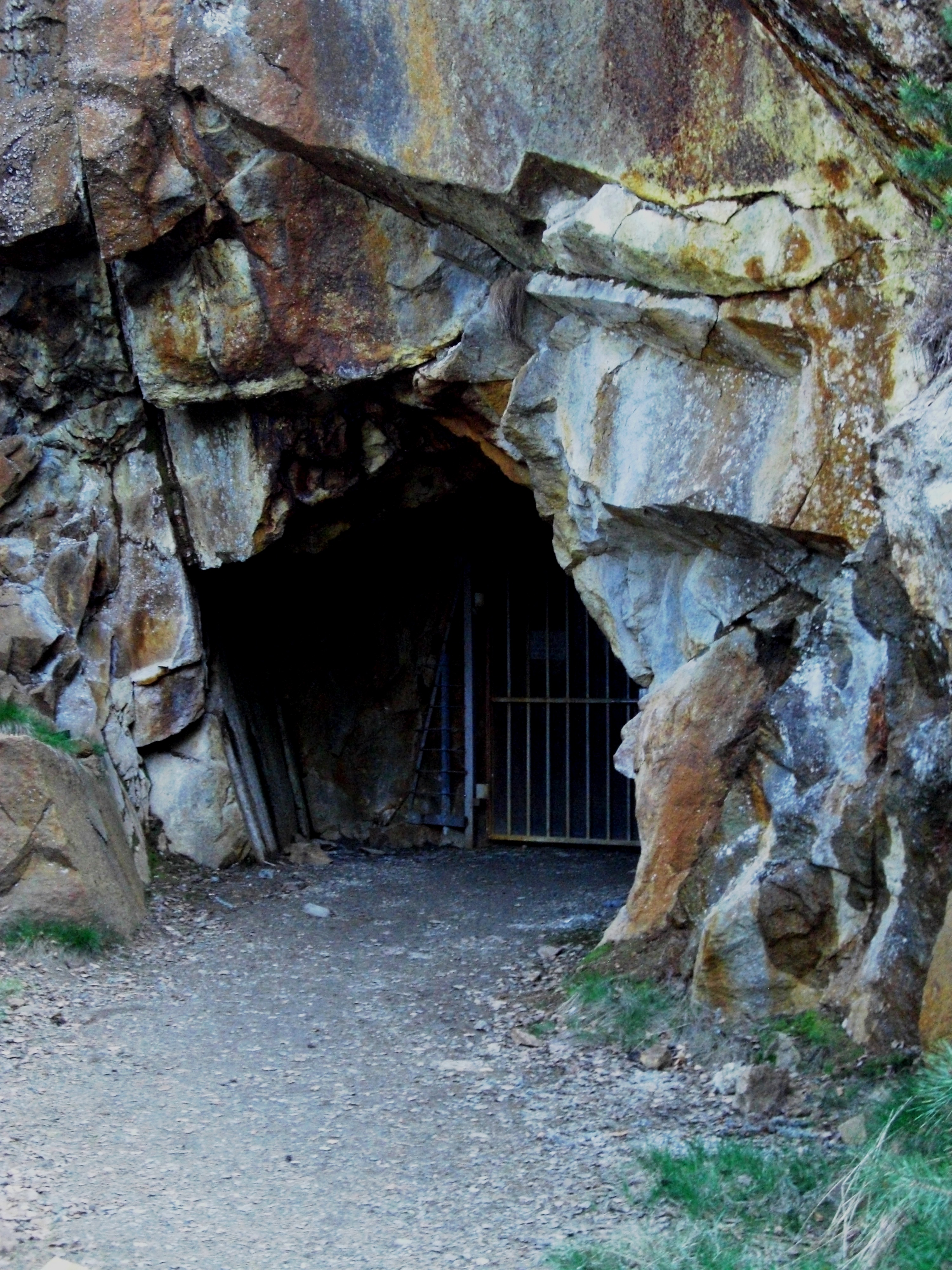 Rom nickle mines